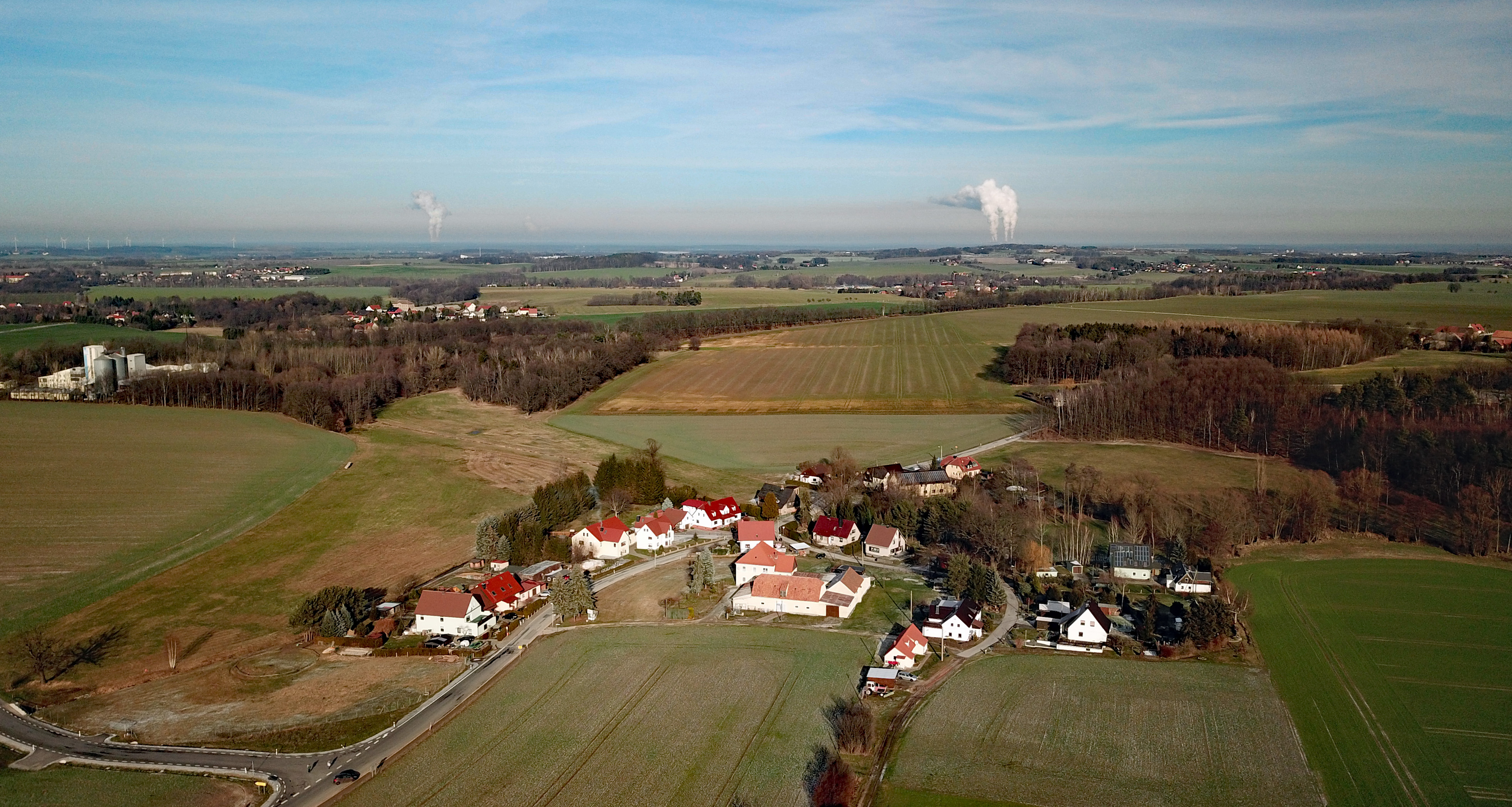 Brösang (Doberschau-Gaußig, Saxony, Germany) Hornjoserbsce: Powětrowy wobraz Brězynki pola Huski